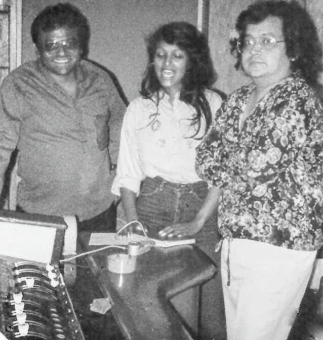 Babbar Subhash Bappi Lahiri & Parvati Khan During song recording "Jimmy Jimmy" for Disco Dancer 1981